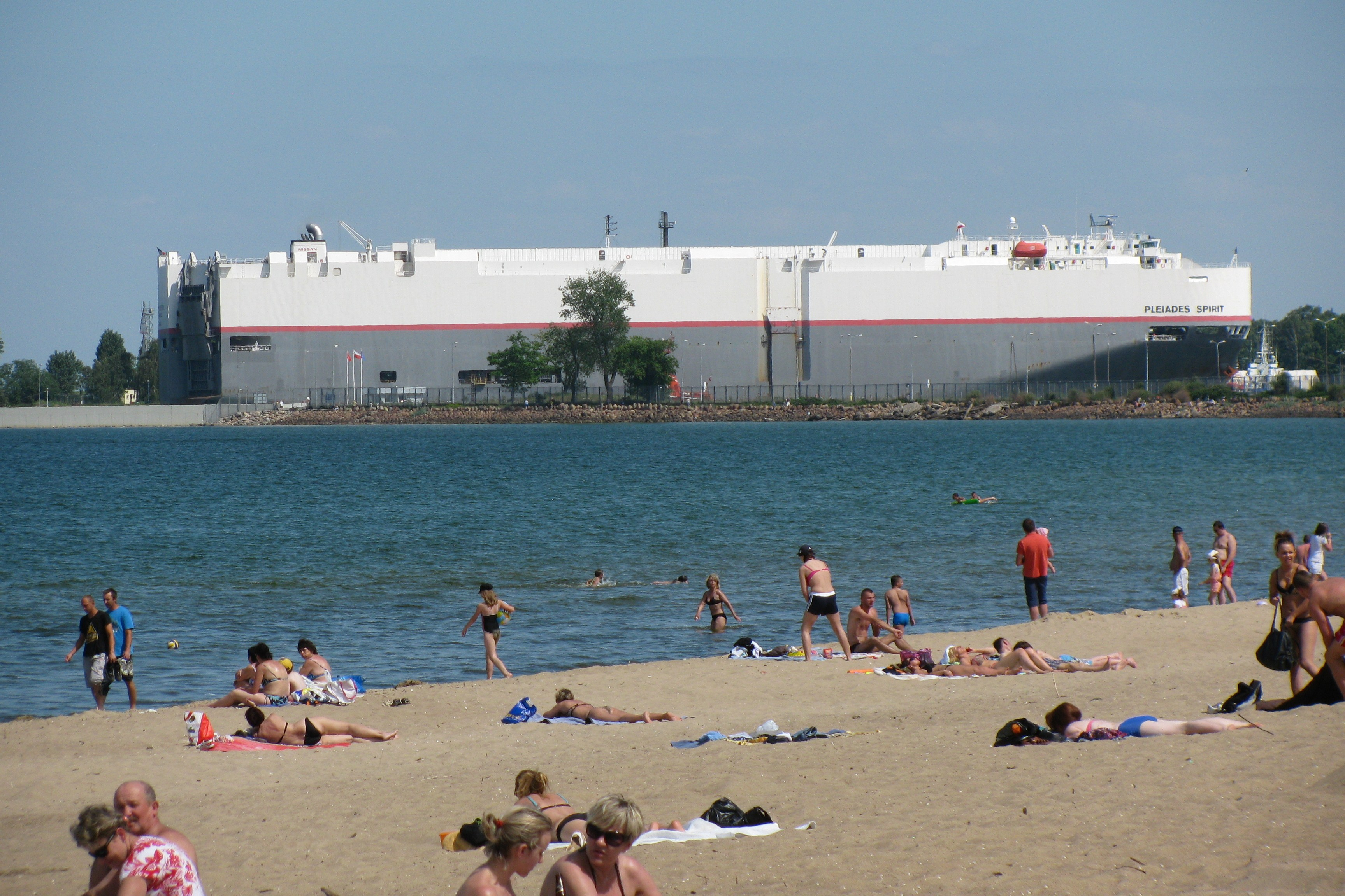 "Pleiades spirit" leaving the Gdańsk harbour (Poland).